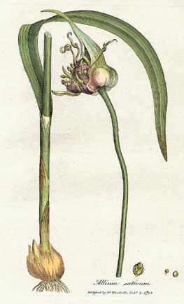 William Woodville: „Medical botany“, London, James Phillips, 1793, Vol. 3Plate 168: Allium sativum (Garlic)Hand-coloured engraving